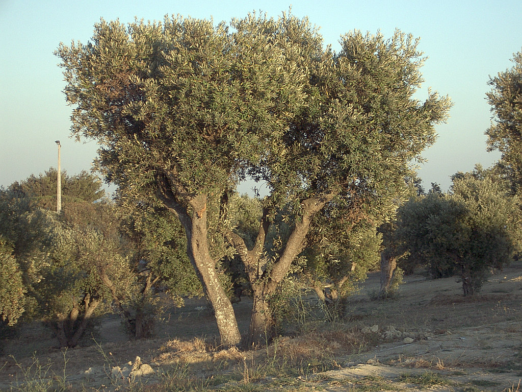 Large olive tree in Bela Vista, Lisbon, Portugal.